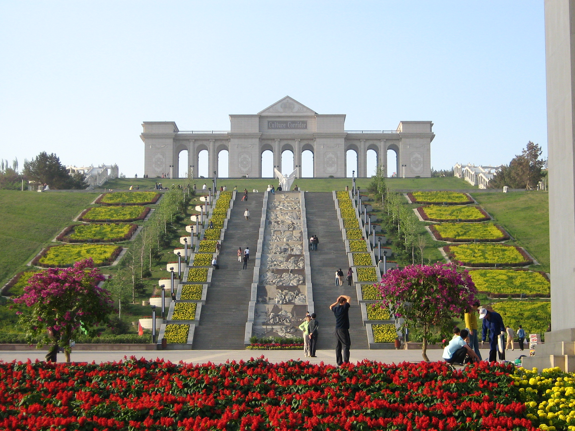 yangquan,shanxi,阳泉，山西